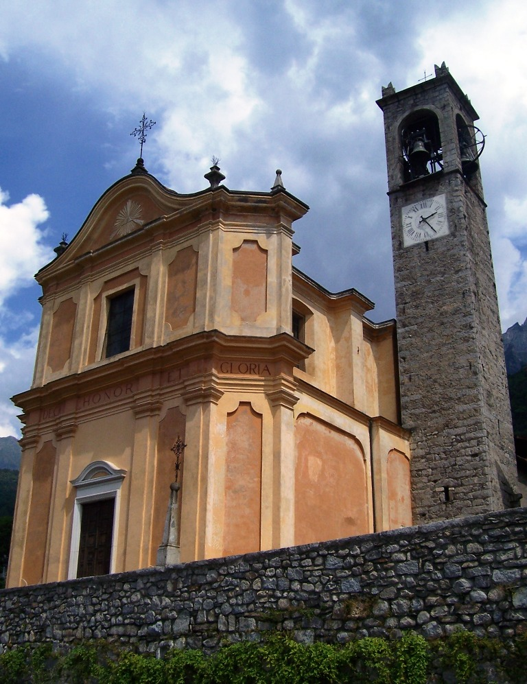 Church st andrew, Ceto, Val Camonica